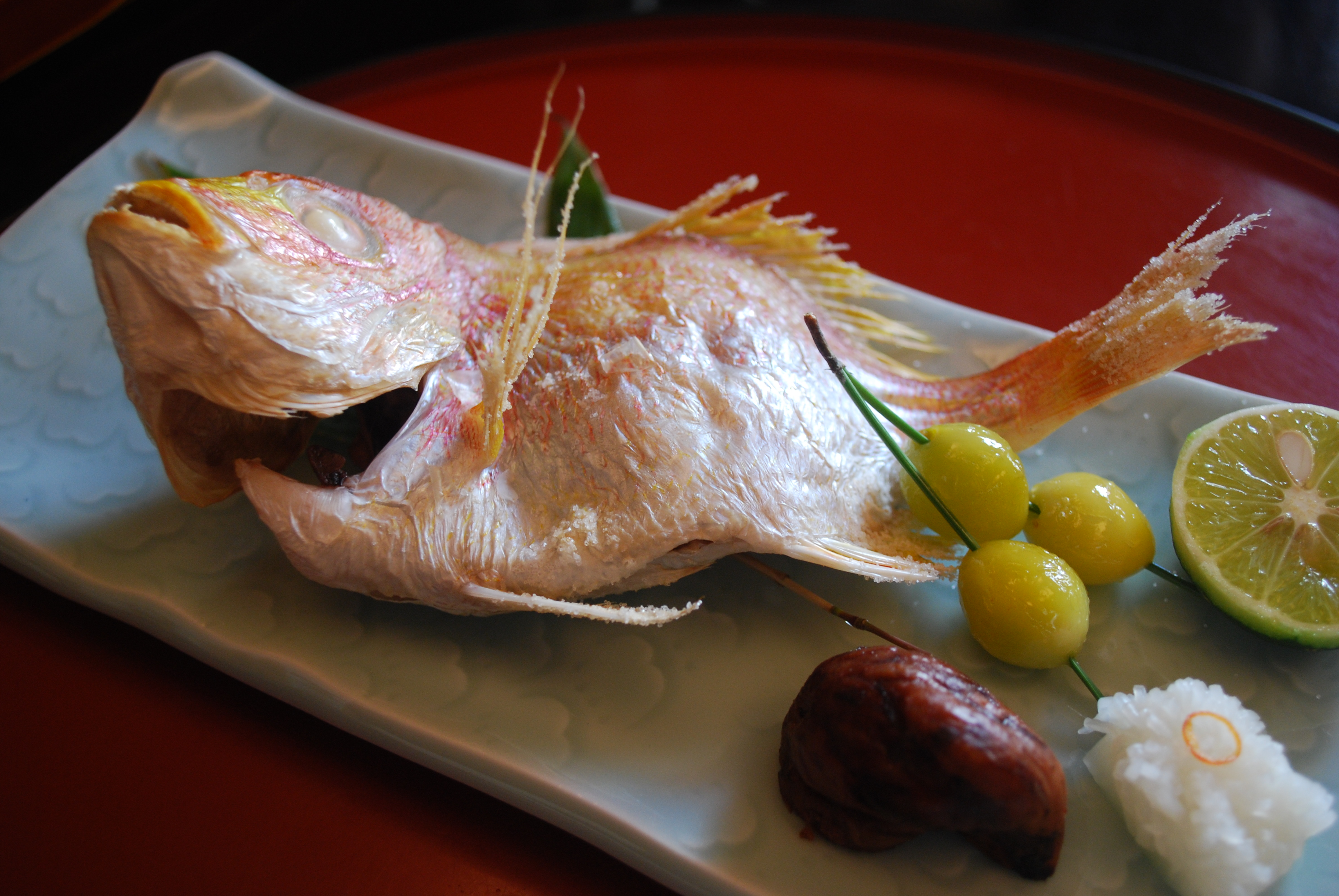 The grilling fish with salt of the sea bream,Katori-city,Japan. It is often that I eat in the seat of the celebration.